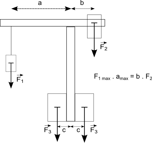 Crane